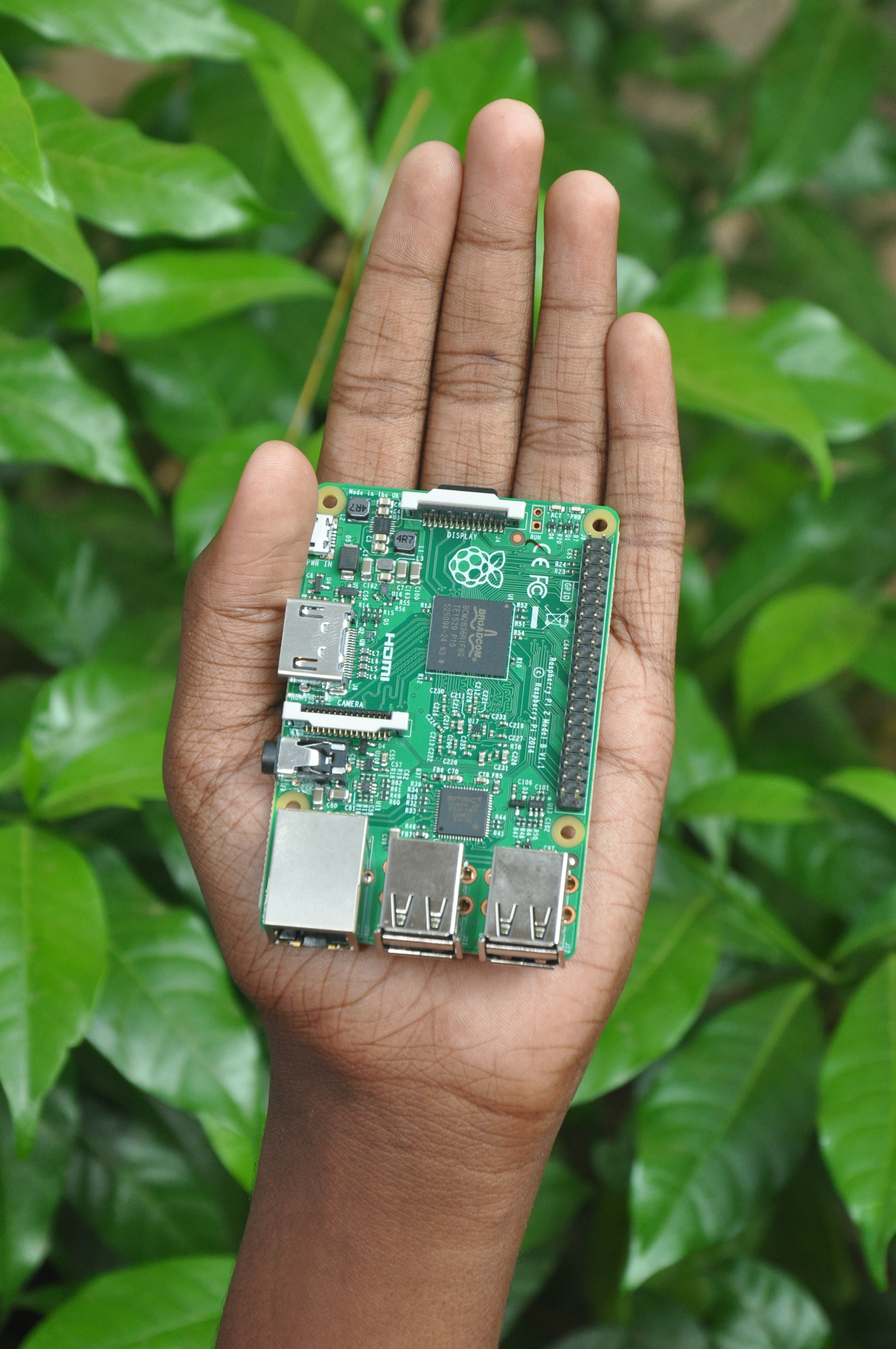 Raspberry pi showing size